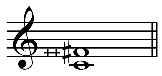 Pythagorean augmented fourth on C = F♯++ (Ben Johnston's notation). 729:512 = 611.73 cents. Limit: 3-limit.